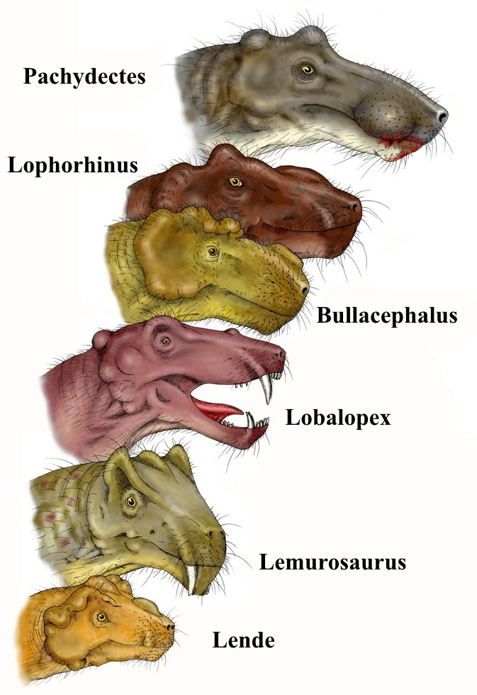 Some members of burnetiamorpha